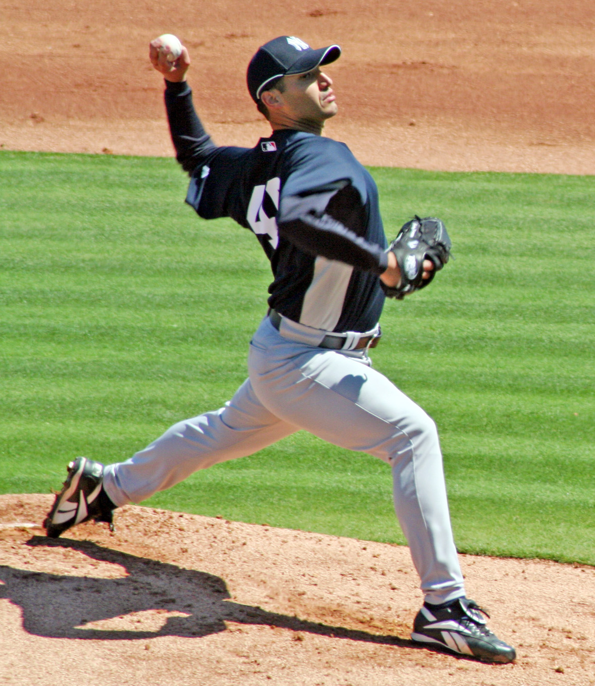 Photograph taken by Googie Man 22:29, 17 March 2007 . . Googie man . . 1179×1359 (540,471 bytes)